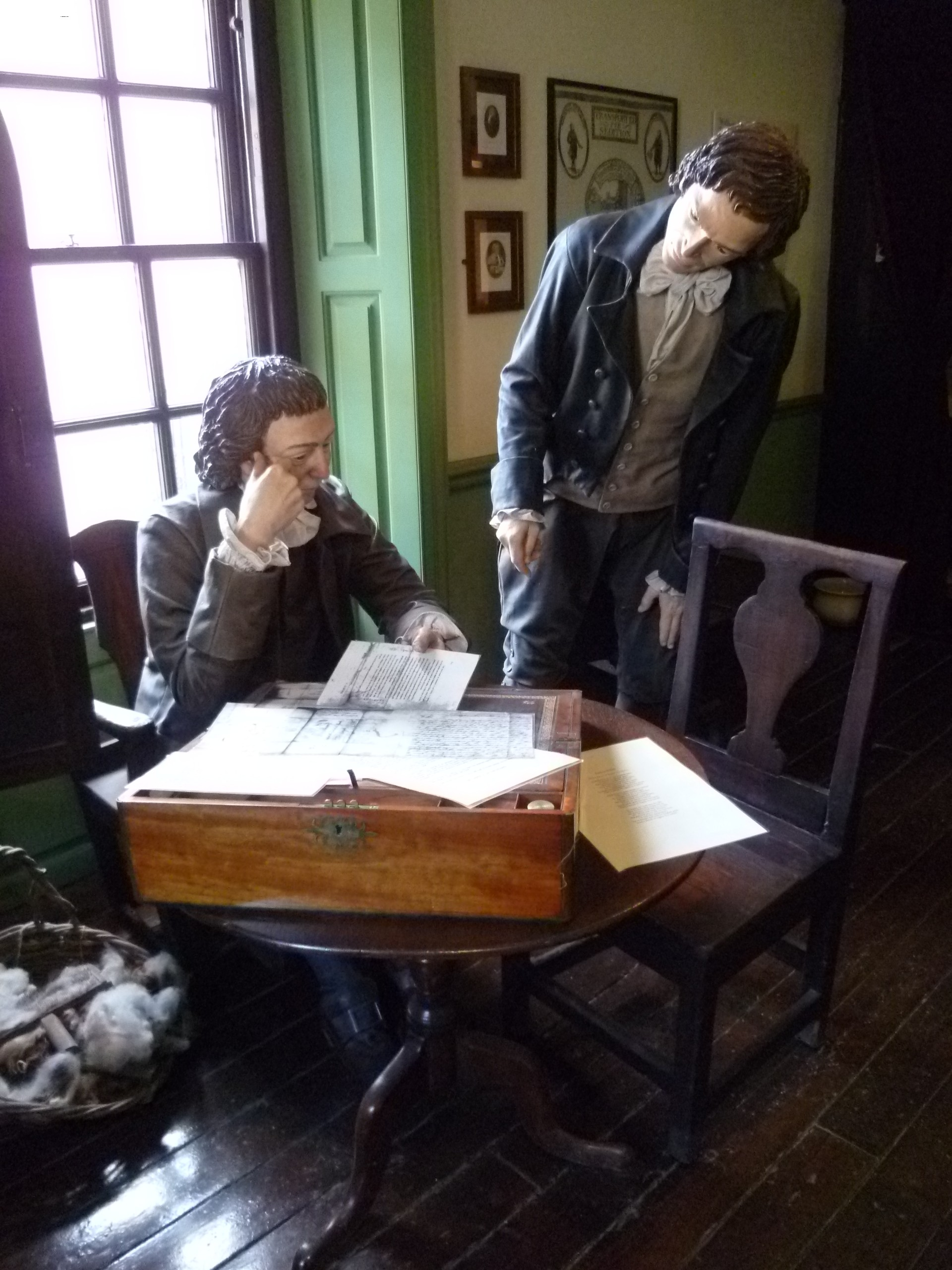 William Skirving (left), Fife farmer and radical campaigner for parliamentary reform in the late 18th century. As one of the 'Friends of the People', he was charged with sedition by the Crown and after a state trial was transported to Botany Bay where he died. He is commemorated on the Political Martyrs' Monument on the Calton Hill in Edinburgh.